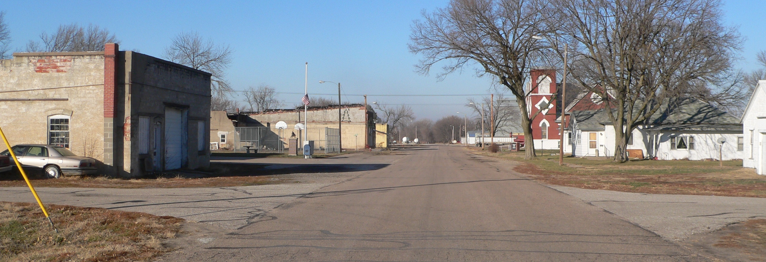 Downtown Brock, Nebraska: Main Street. Camera is facing north.